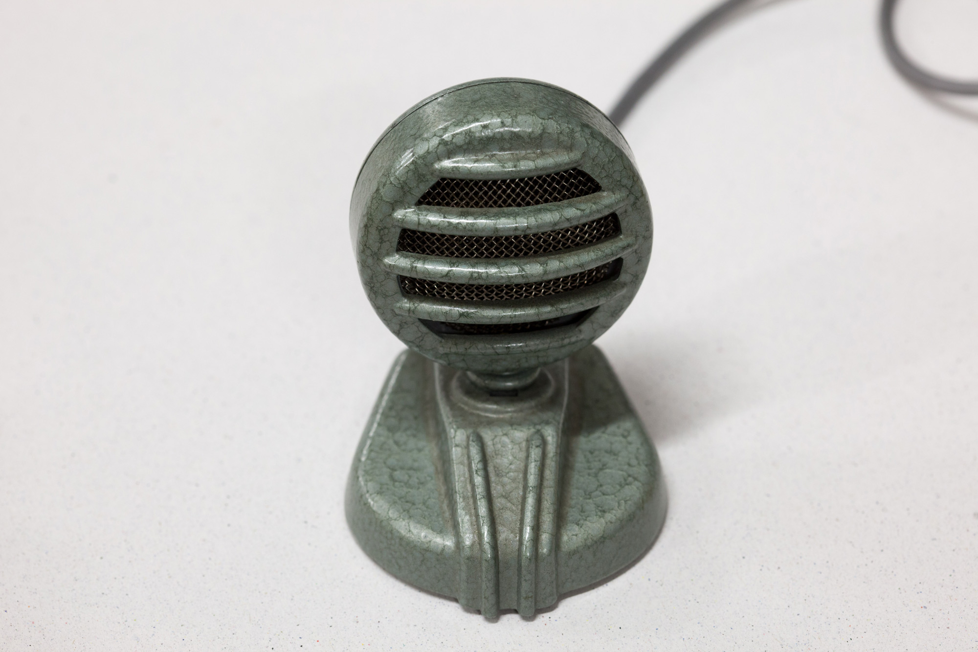 Crystal microphone KM T St 7055, VEB Funkwerk Leipzig, product of East Germany, 1957. Museum für Kommunikation, Frankfurt, Germany. Photo by Maximilian Schönherr with help from Lioba Nägele.